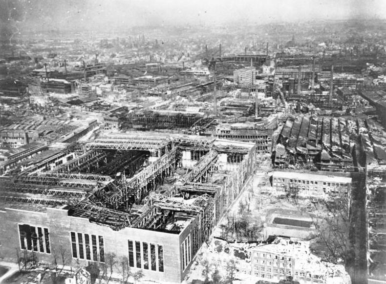 Title: Essen, zerstörte Krupp-Werke, Luftaufnahme Factual corrections and alternative descriptions are encouraged separately from the original description. Additionally errors can be reported at this page to inform the Bundesarchiv. Original historic description: Bippa Devastated Krupp Works in Essen This aerial photo, taken from an artillery observation plane of Ninth U.S. Army's 79th Division, shows to the damage wrought to the Krupp stool plant at Essen, Germany, which was ponded by Allied air attacks and artillery of the Ninth Army before the city fell April 10, 1945, to troops of the 17th U.S. Airborne Division. Krupp was especially important to the enemy because so many other German armamonts factories were dependent on it for parts, such as armored platos and crankshafts. U.S. soldiers met little enemy resistence in the city, which had a peacetime population of 670,000. Essen is situated in the midst of one of the world's richest hard coal deposits and has been called the arsenal of Germany. U.S. Signal Corps Photo ETO-HQ-45-31874. Serviced by London OWI to list B certified as passed by shaef censor